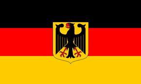 The unofficial flag of the Federal Republic of Germany.